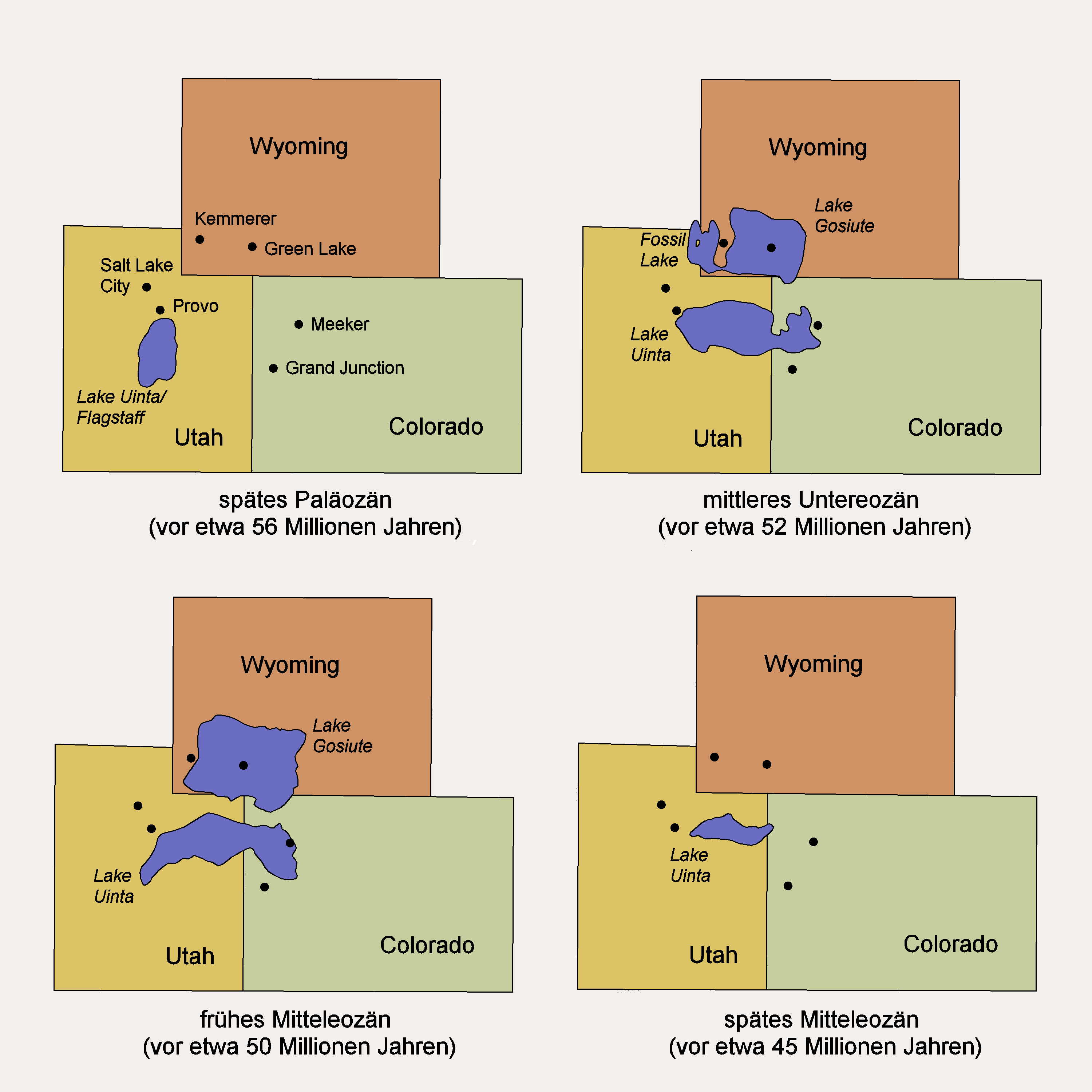 The three lakes of the Green River lake system at different intervals of time during their history, drawn after: Lance Grande: The lost world of Fossil Lake. Snapshot from deep time. University of Chicago Press, Chicago and London, 2013, pp. 1–425 (p. 3) ISBN 978-0-226-92296-6, printed before in: Lance Grande: The Eocene Green River Lake System, Fossil Lake, and the history of the North American fish fauna. In: J. Flynn (ed.): Mesozoic/Cenozoic Vertebrate Paleontology: Classic Localities, Contemporary, Approaches. American Geophysical Union, 1989, pp. 18–28 (p. 19) Die drei Seen des Green River lake system während verschiedener Zeitabschnitte ihres Bestehens, nachgezeichnet nach: Lance Grande: The lost world of Fossil Lake. Snapshot from deep time. University of Chicago Press, Chicago und London, 2013, S. 1–425 (S. 3) ISBN 978-0-226-92296-6, zuvor veröffentlicht (abweichend) in: Lance Grande: The Eocene Green River Lake System, Fossil Lake, and the history of the North American fish fauna. In: J. Flynn (Hrsg.): Mesozoic/Cenozoic Vertebrate Paleontology: Classic Localities, Contemporary, Approaches. American Geophysical Union, 1989, S. 18–28 (S. 19)